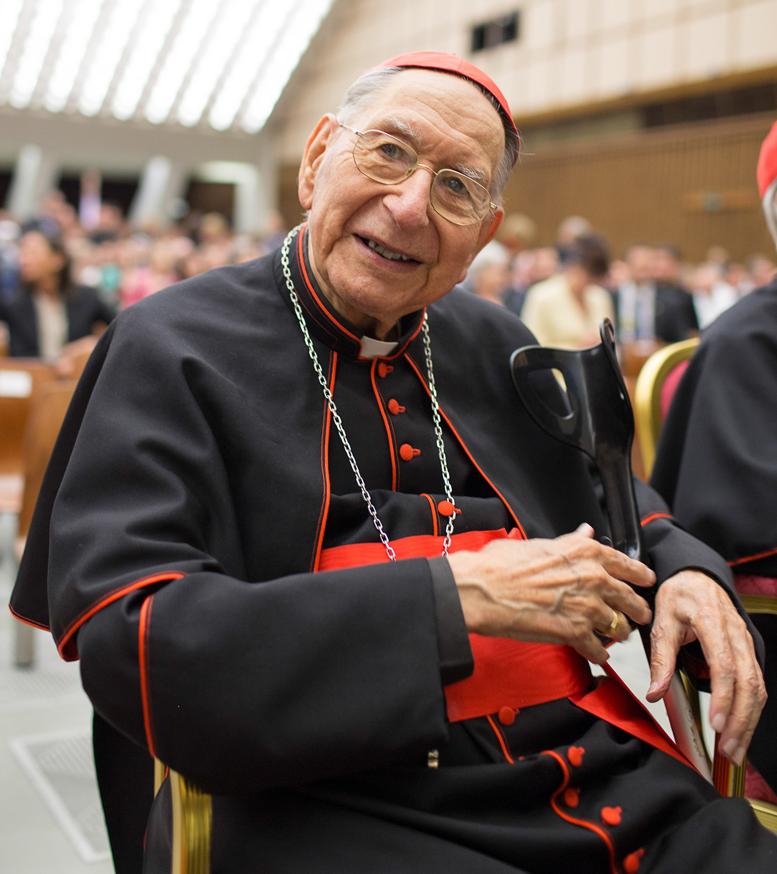 Cardinal Georges Cottier at the Paul VI audience hall.